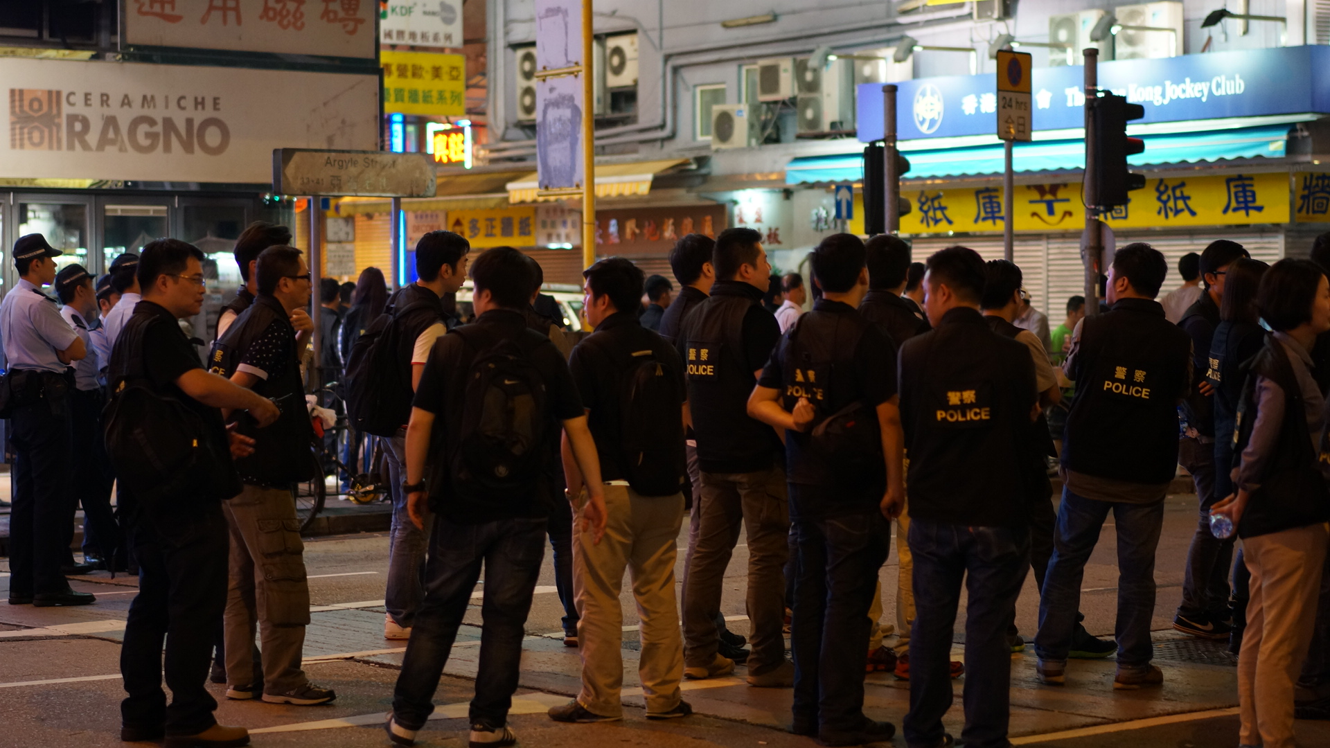 Umbrella Revolution Police in Mong Kok